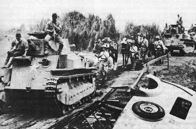 Japanese light tanks moving toward Manila on the day the city was entered.